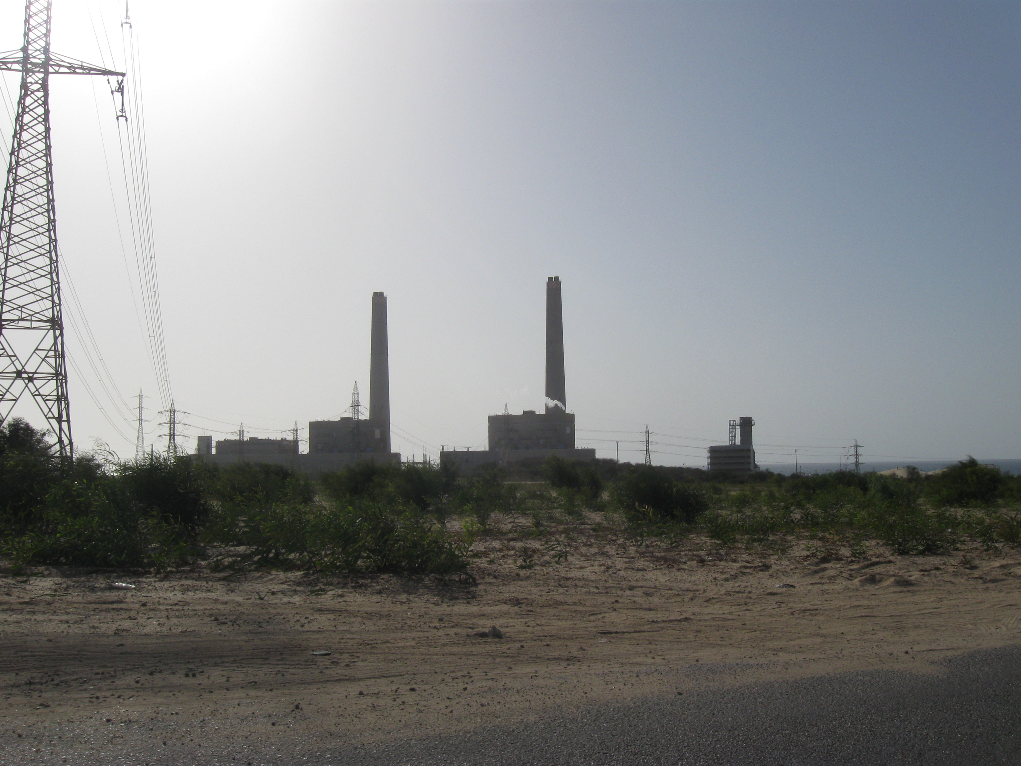 Eshkol power station in Ashdod